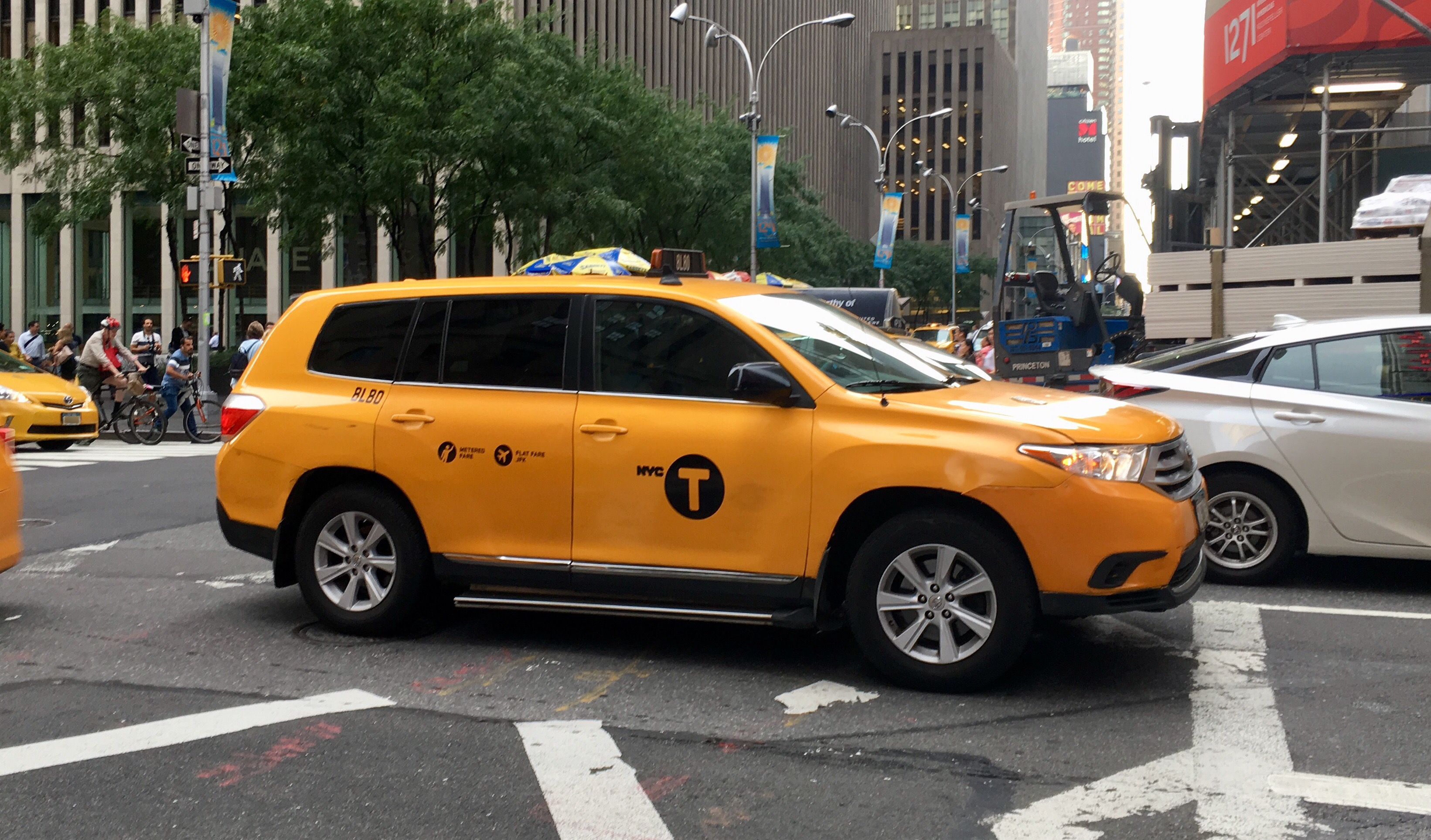 Taxi 2nd facelifted gen Highlander